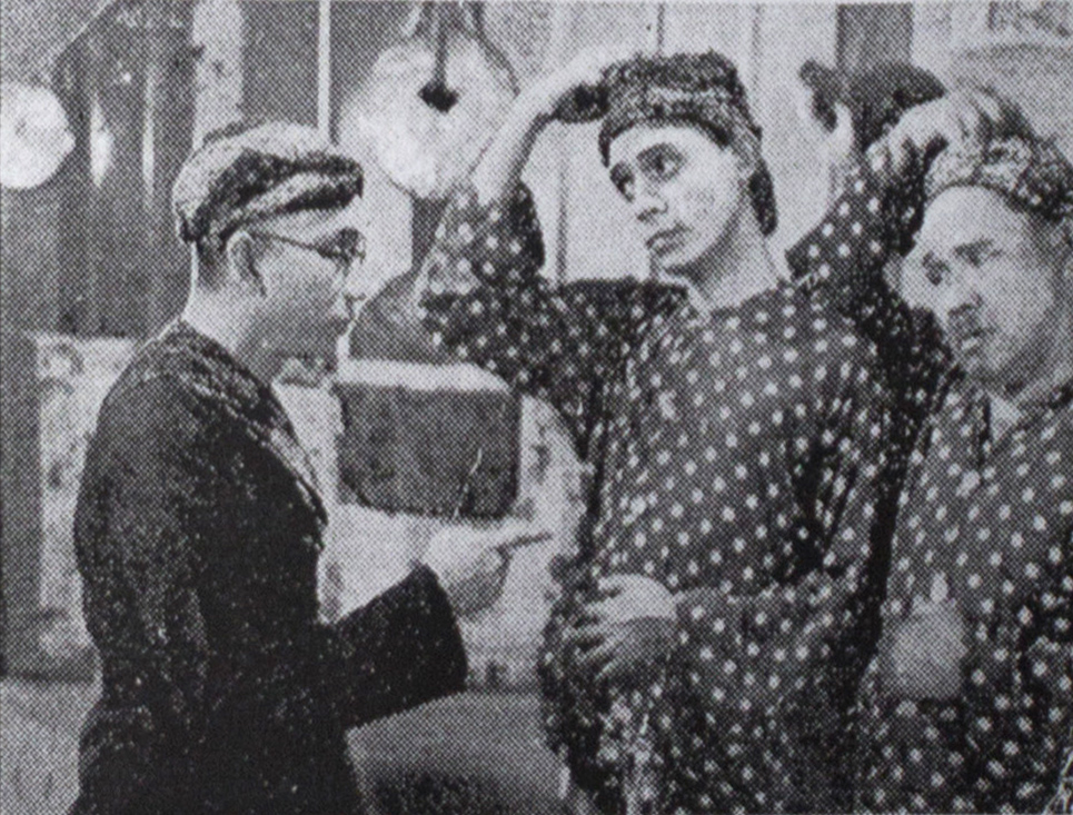 Pah Wongso in a scene from Pah Wongso Tersangka, completed by Star Film and released in December 1941.